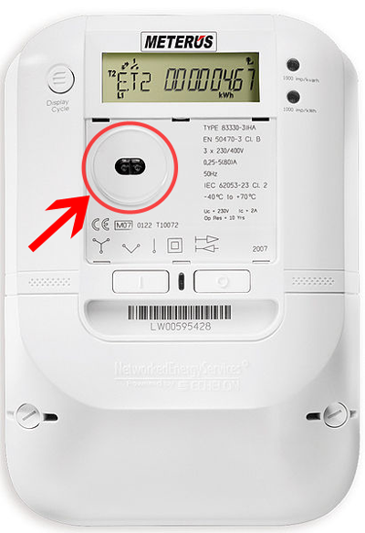 Digitale (Slimme) Kilowattuurmeter met optische poort